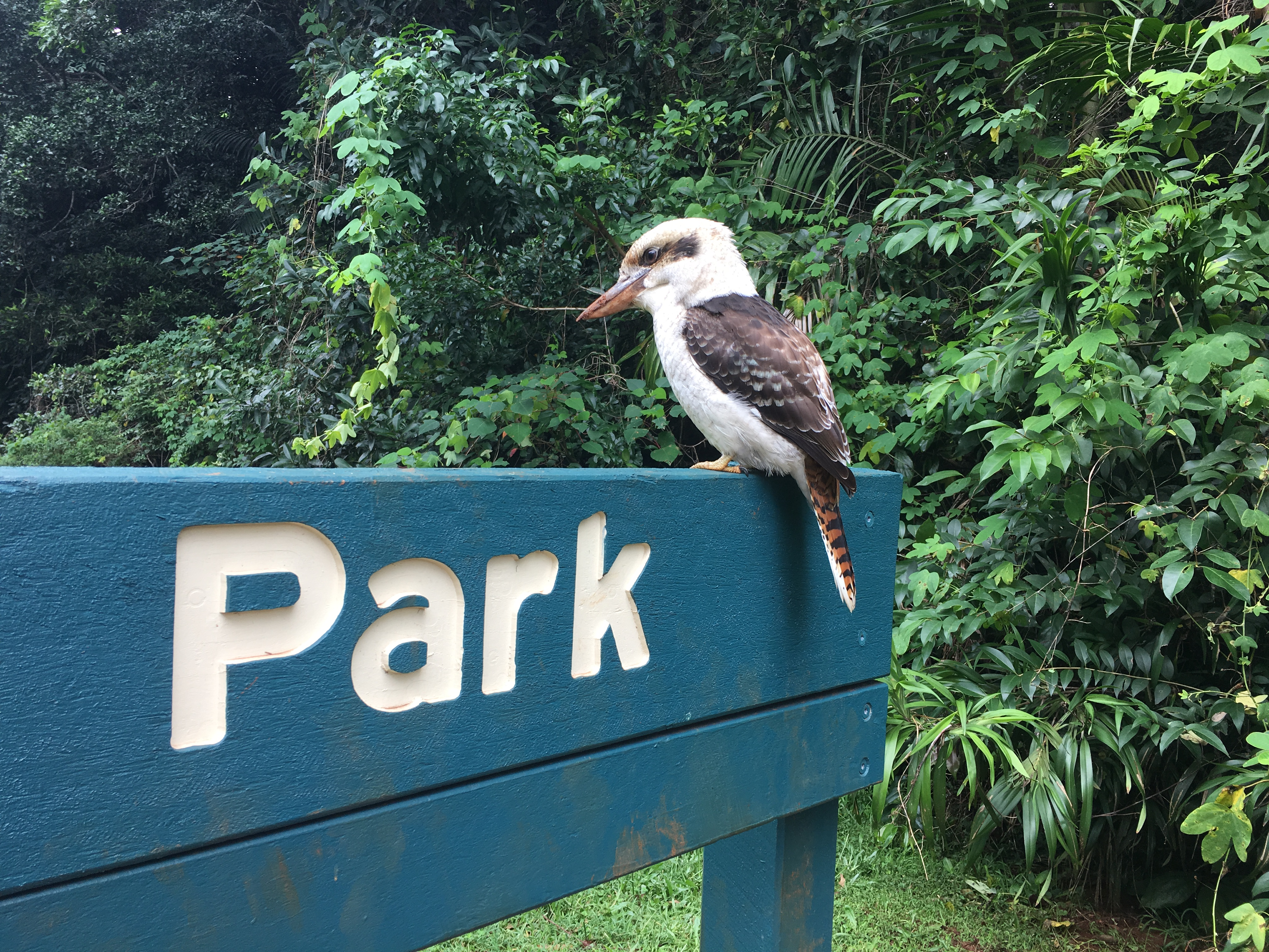 Kookaburra in Tamborine National Park